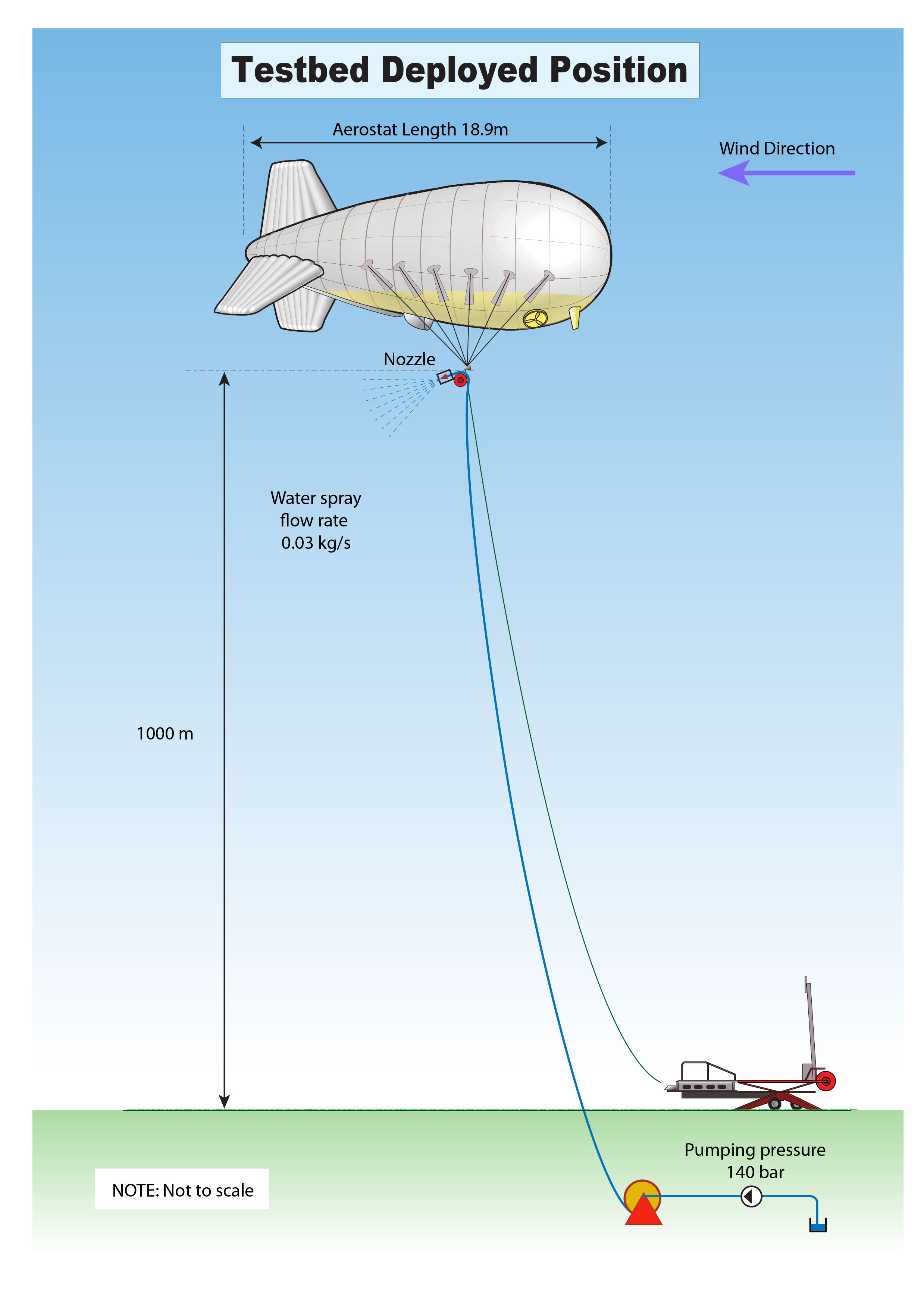 SPICE - Stratospheric Particle Injection for Climate Engineering. Engineers from the University of Cambridge and Marshall Aerospace will assess the effect of wind on tethered balloon at a height of 1km while at the same time pumping water at a rate of around 1kg/min. They will be using the data obtained from these tests in computer models aimed at examining how a full-scale tethered balloon might behave in the high winds experienced at altitudes up 20km.